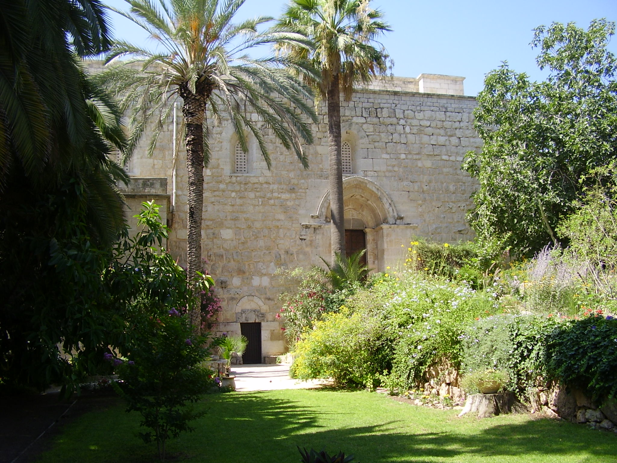 the crusader church in abu ghosh הכנסייה הצלבנית באבו גוש